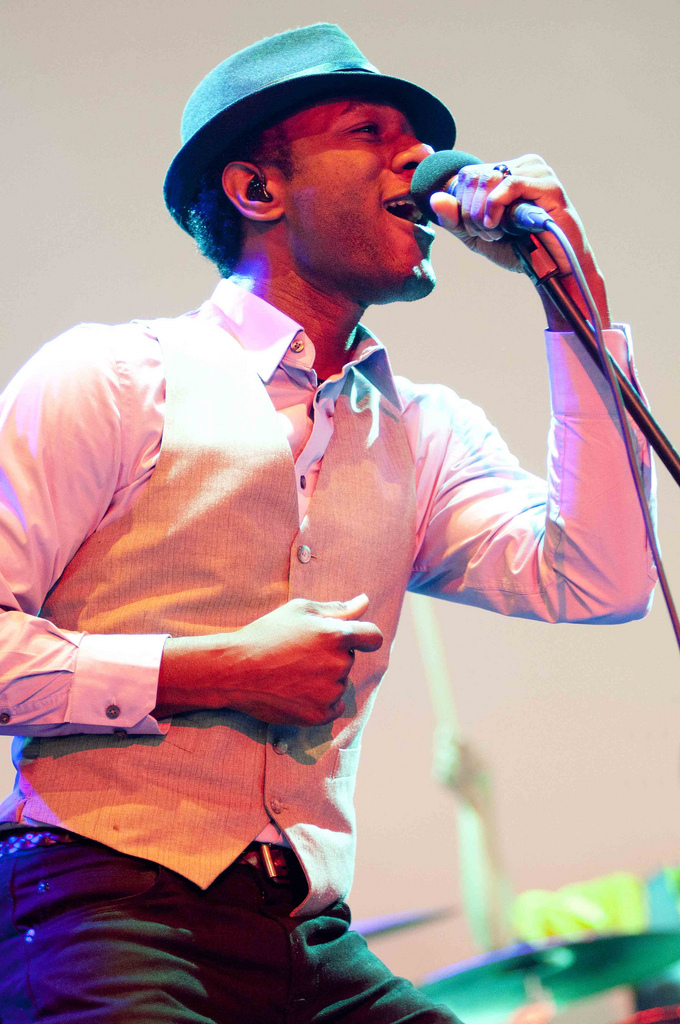 Aloe Blacc at Festival Mundial, Tilburg, The Netherlands 19-06-2011